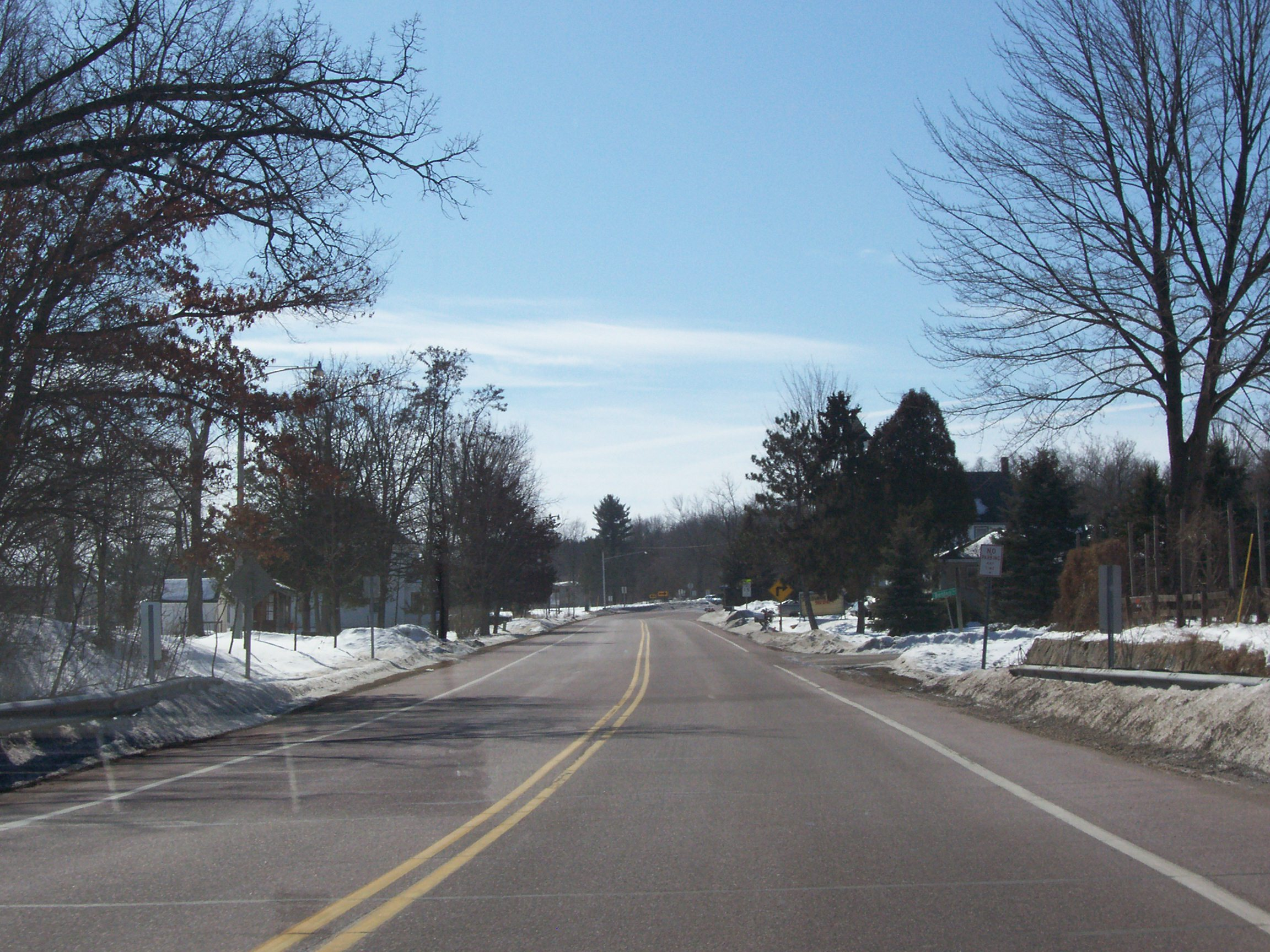 Looking south at Briggsville, Wisconsin, USA while travelling on Wisconsin Highway 23. Taken March 11, 2007 by myself.